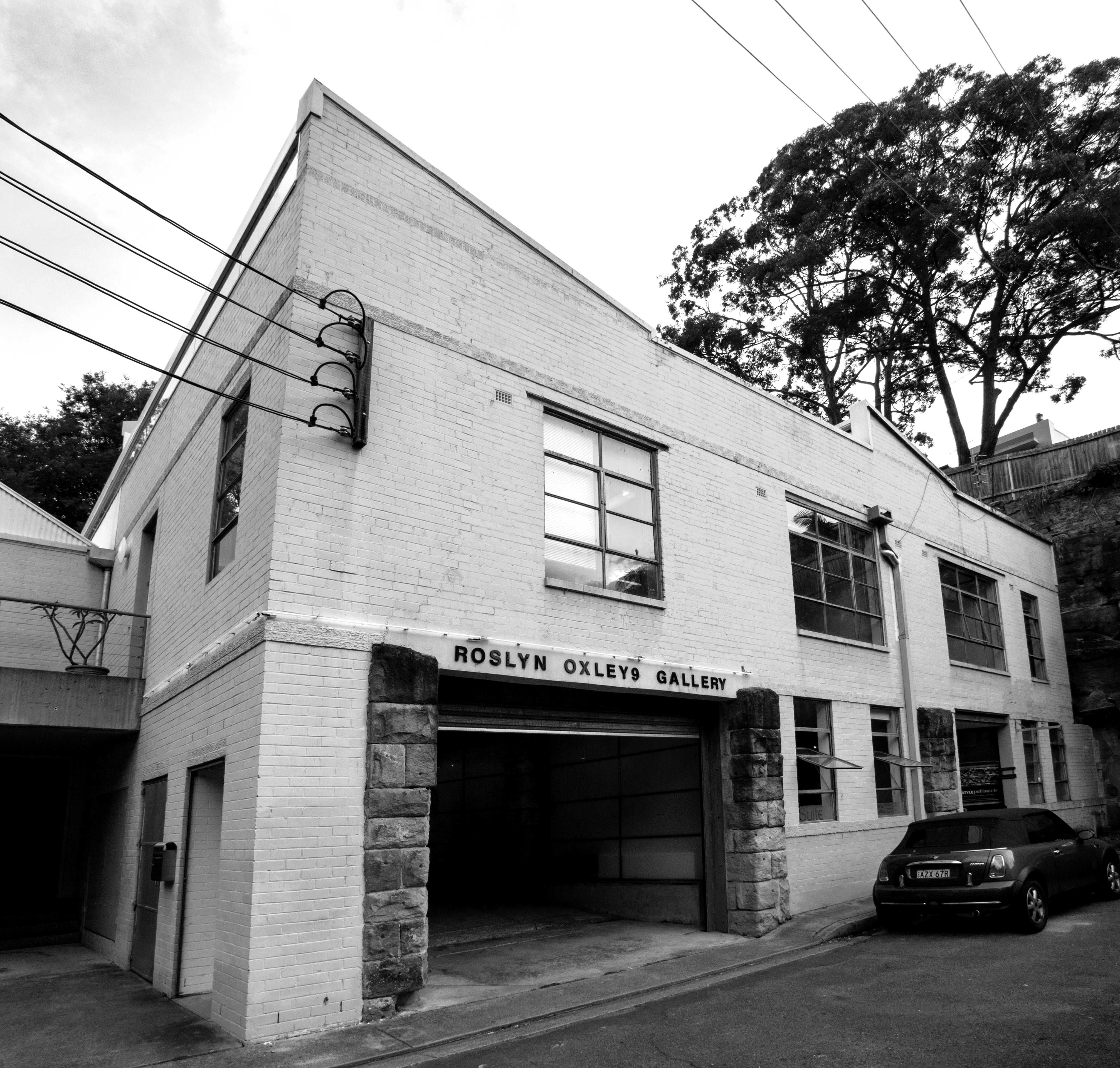 The site of Roslyn Oxley9 in Sydney, Australia.